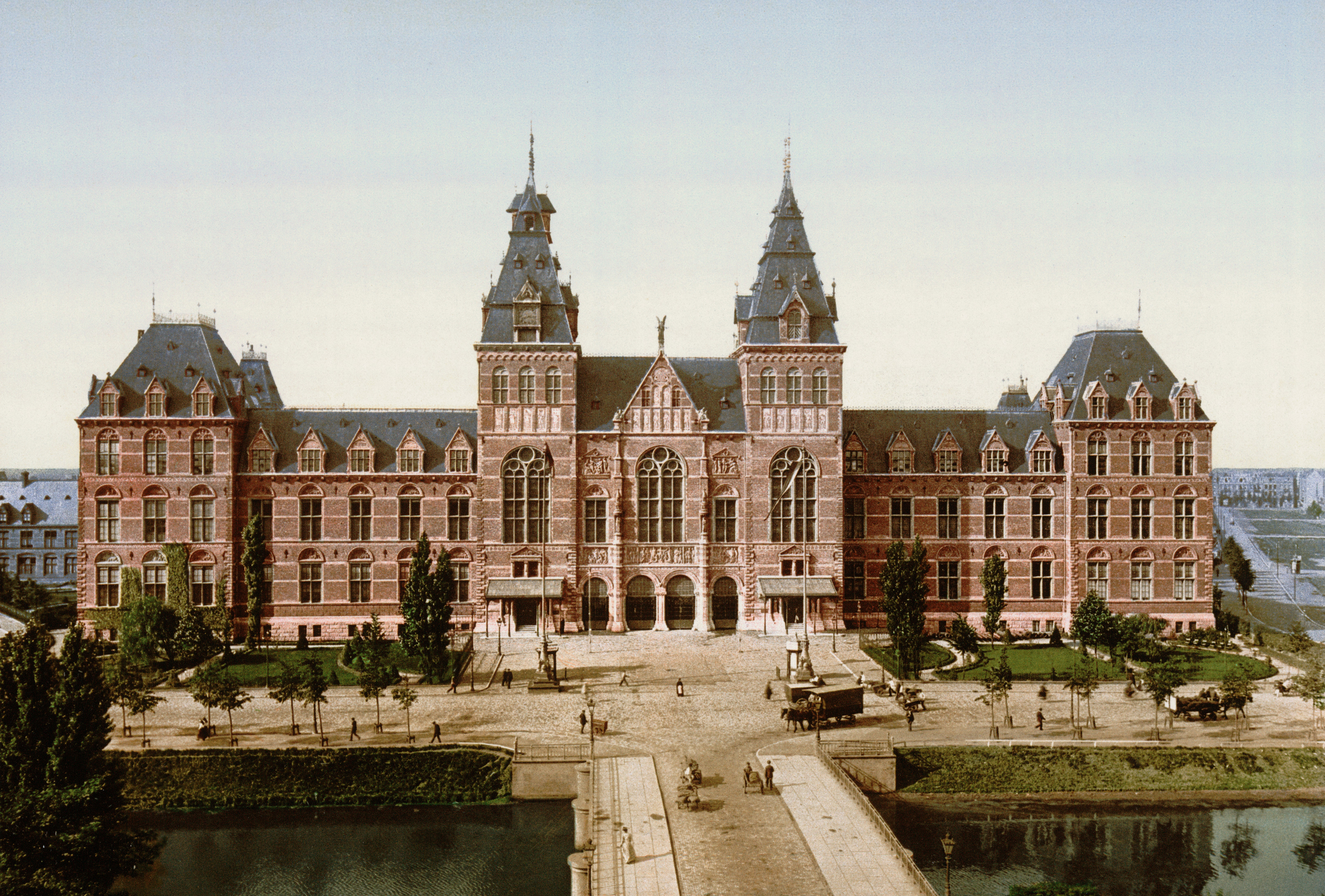 Rijksmuseum Native nameRijksmuseum AmsterdamLocationAmsterdamCoordinates52° 21′ 36″ N, 4° 53′ 07″ E Established1800Web pagerijksmuseum.nlAuthority control : Q190804 VIAF: 159624082 ISNI: 0000 0001 2196 1335 ULAN: 500246547 LCCN: n79007489 NLA: 36126463 WorldCat institution QS:P195,Q190804 circa 1895 date QS:P,+1895-00-00T00:00:00Z/9,P1480,Q5727902 Print no. "6100"